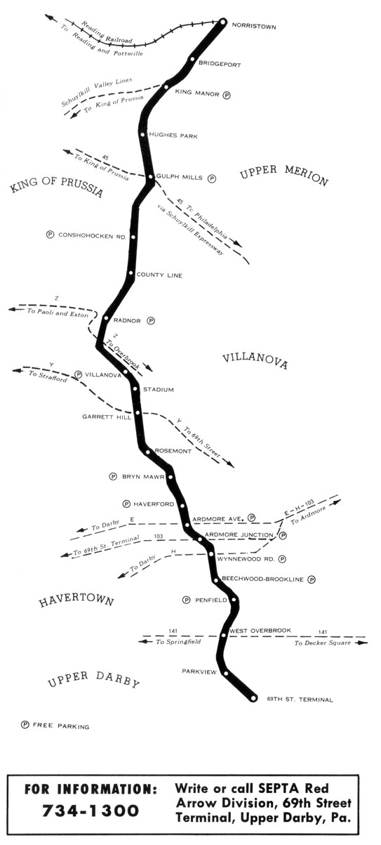 Dated map of SEPTA Route 100